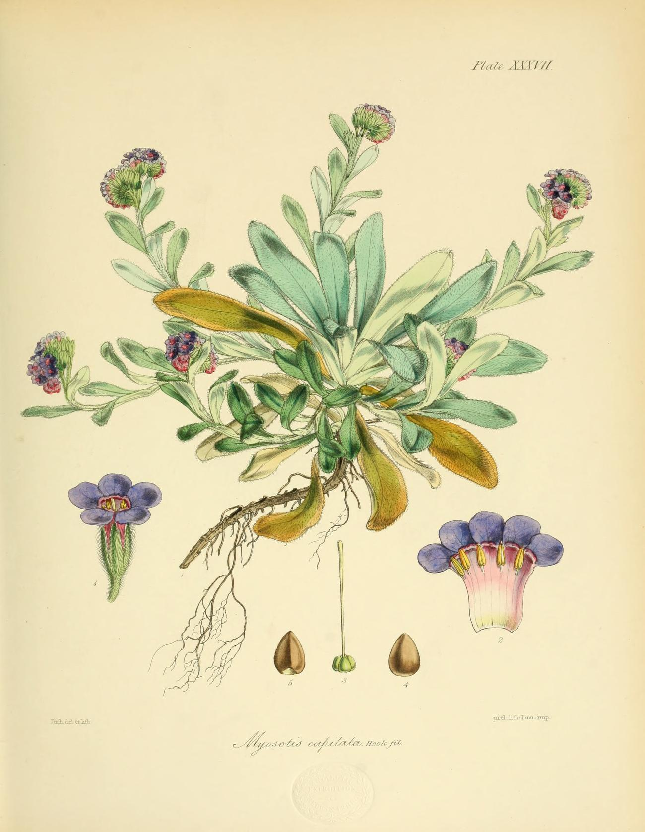 Illustration of Myosotis capitata in Flora Antarctica. Drawn and engraved by Walter Hood Fitch.